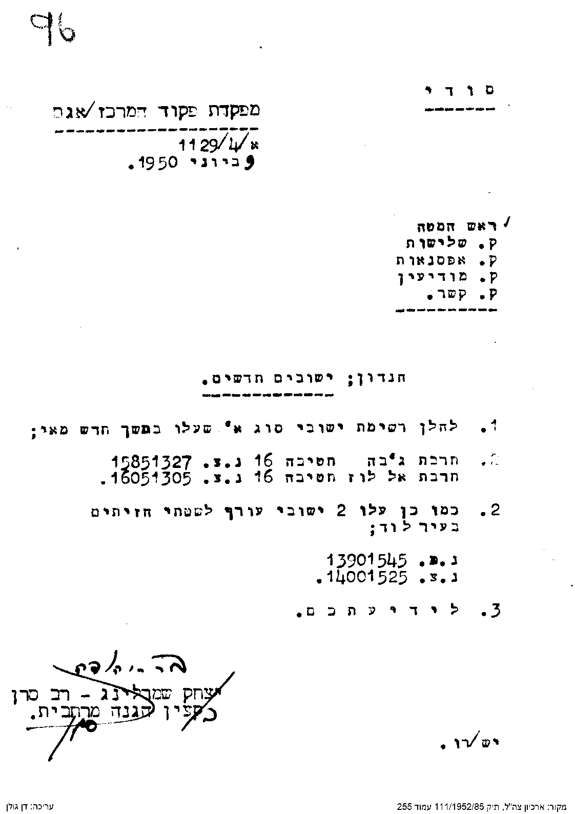 IDF document describing new settlements established in April 1950.